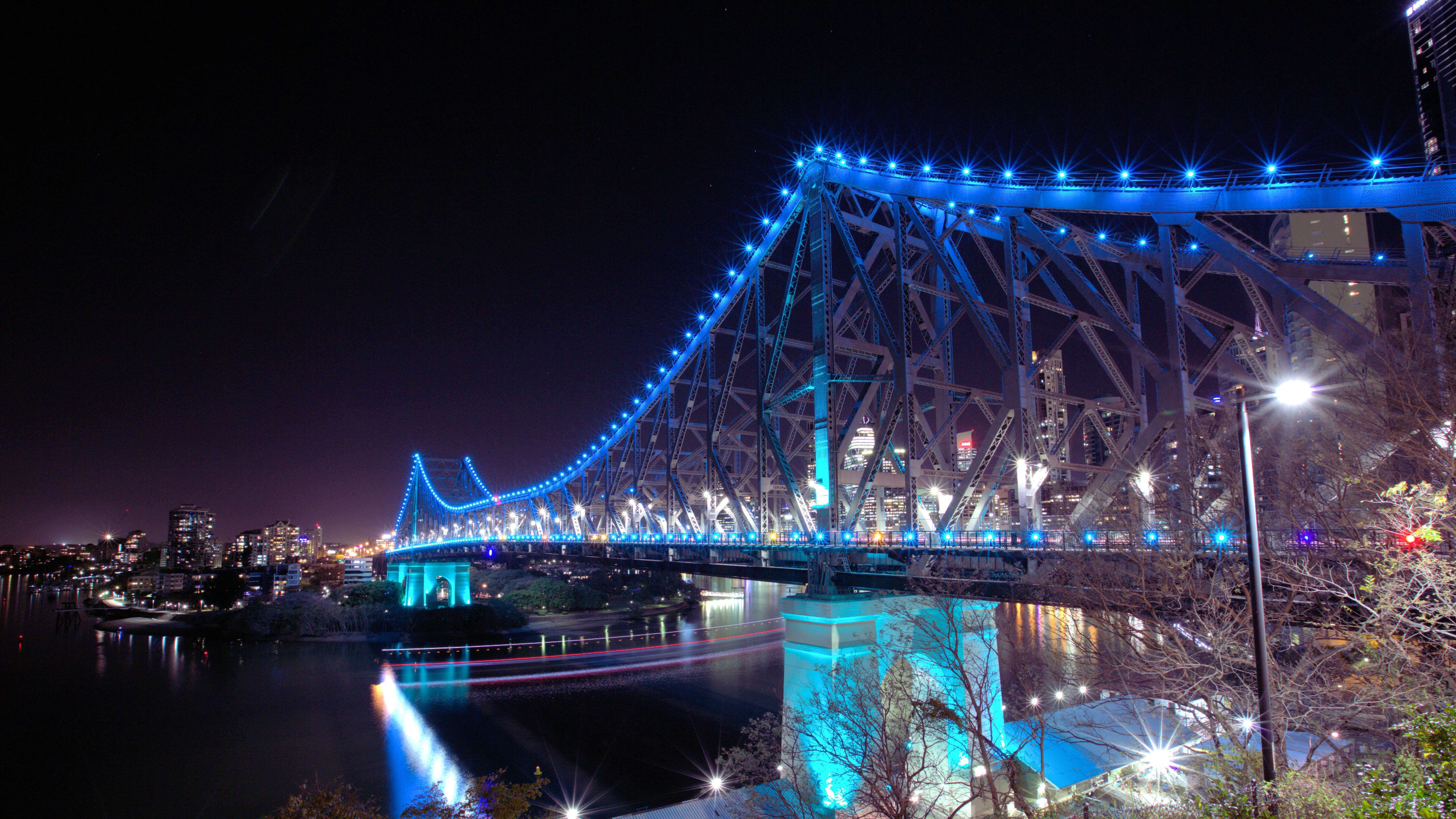 After getting home from the Northern Territory, a quick Friday evening trip to Brisbane and the Story Bridge was in order. Colour on this occasion was Teal, supporting Ovarian Cancer's "Light Up Australia Teal" campaign. Of course I do enjoy a light trail or two.